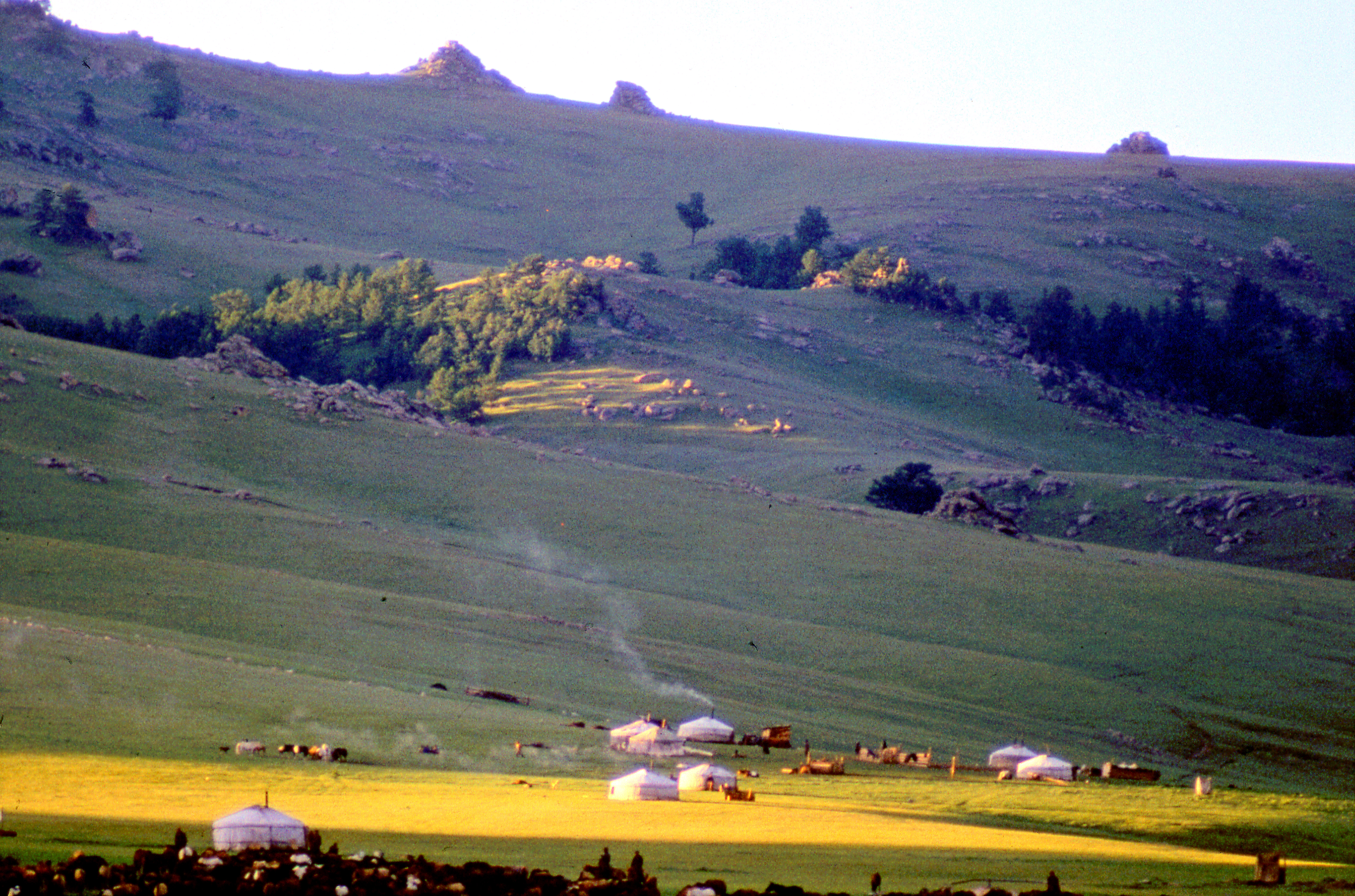 A beautiful landscape in Mongolia